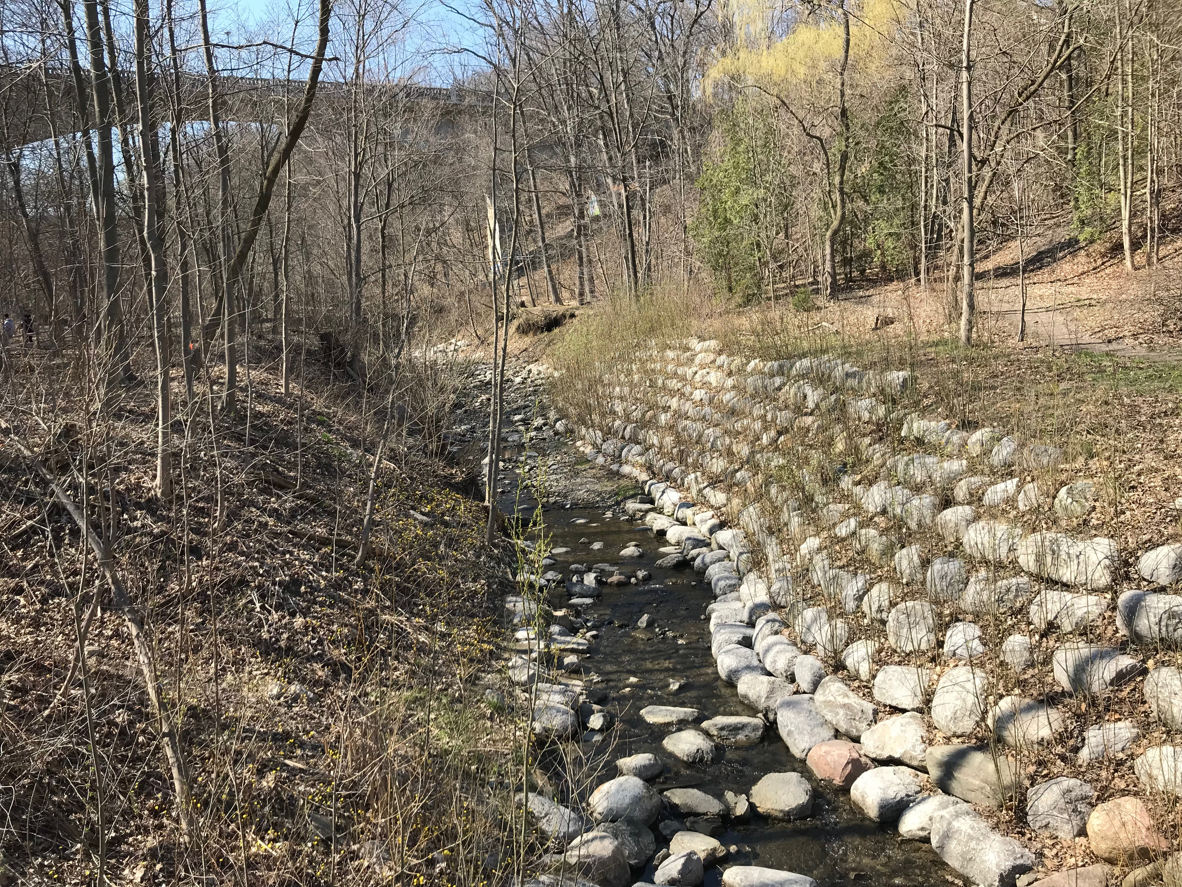 Mud Creek in Toronto Ontario with its bank stabilized with boulders and plantings. Governor's Bridge can be seen in the background.